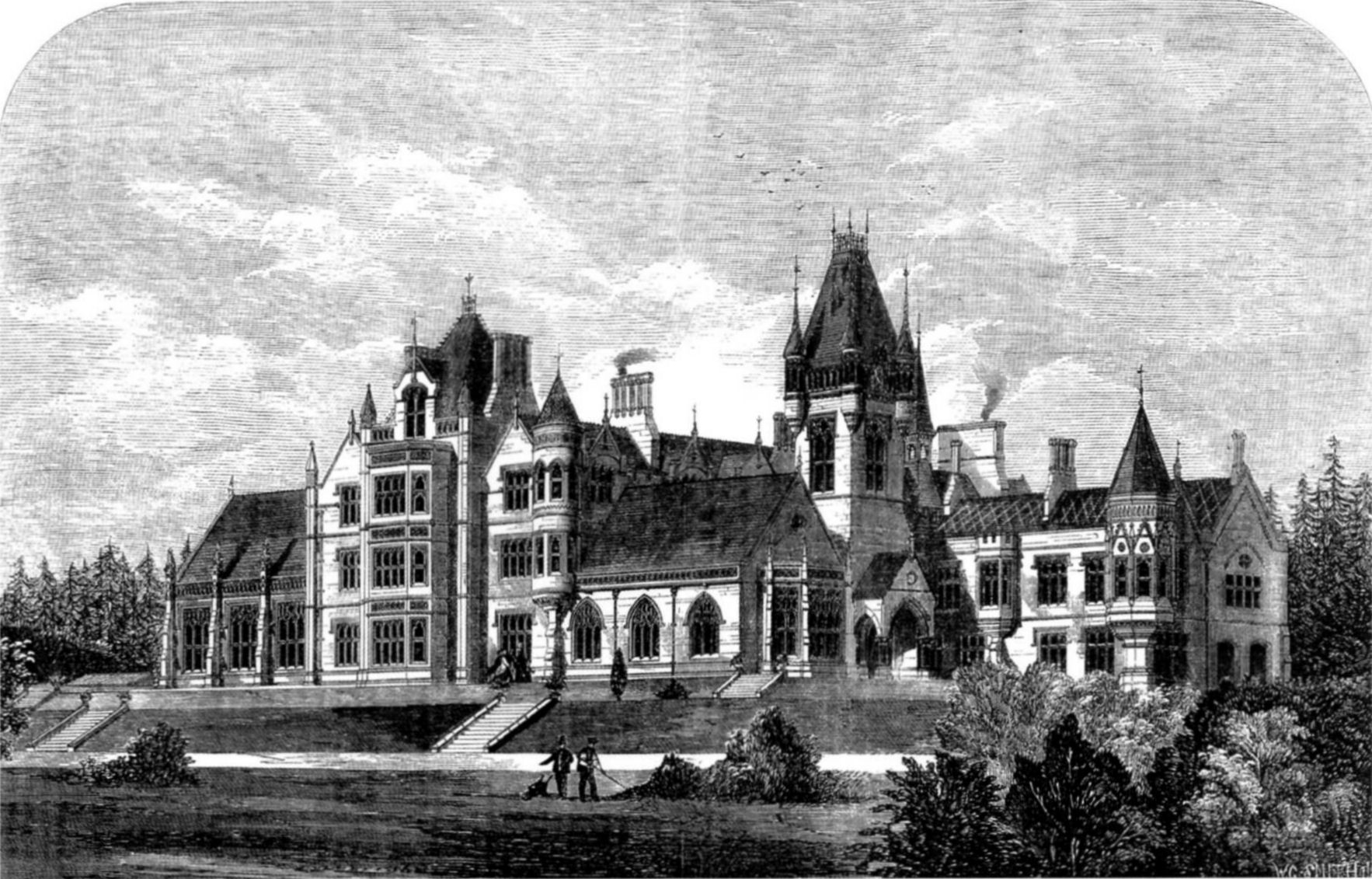 View of Tyntesfield, North Somerset. First published in 1866 in The Builder magazine.